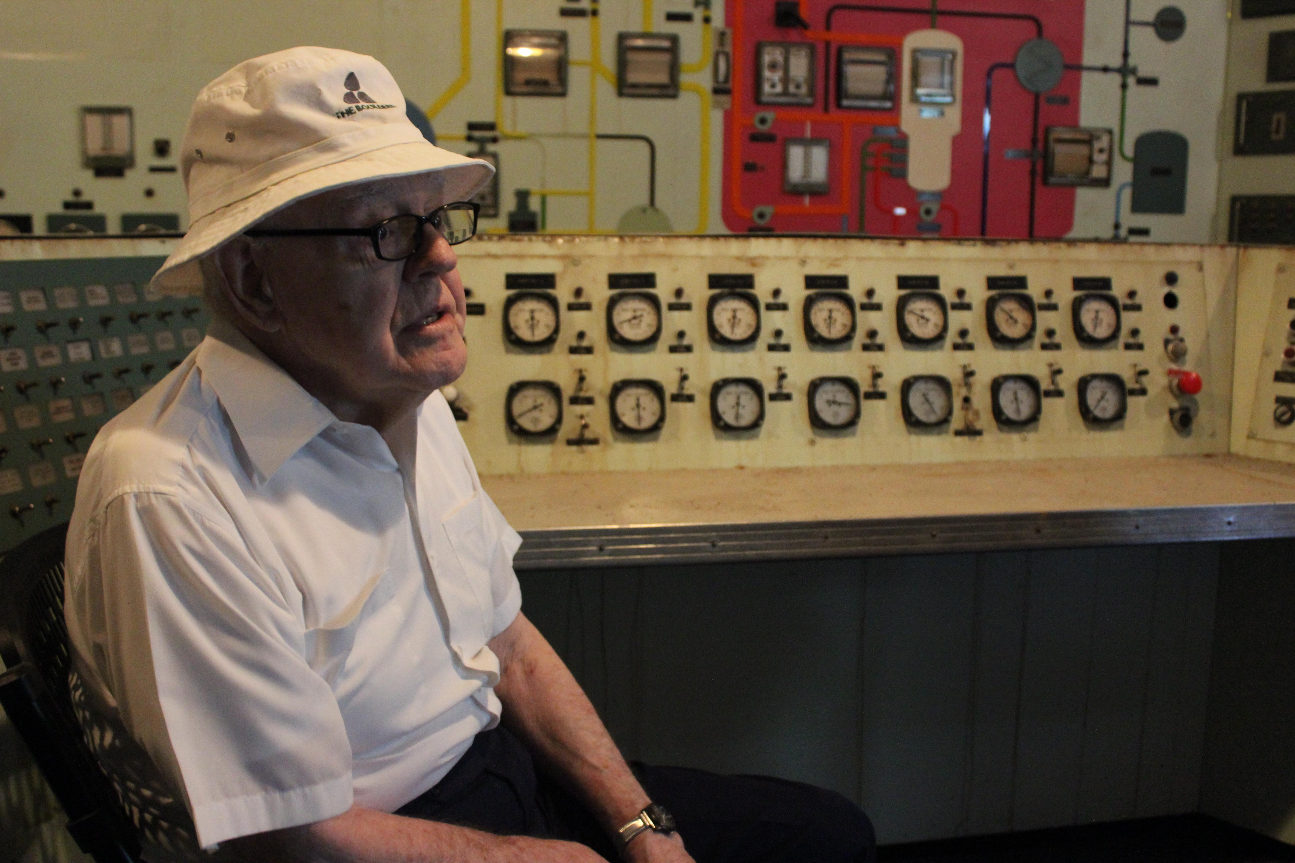 Retired Lt. Gen. Ernest Graves sits at the control panel of the deactivated SM-1 nuclear reactor and power plant at Fort Belvoir during a site visit Tuesday September 19, 2017. As a major with the U.S. Army Corps of Engineers, Graves oversaw the completion of the construction of the facility and its initial operation in the late 1950s. While SM-1’s reactor was deactivated in 1973 and placed into safe storage, the U.S. Army Corps of Engineers is in the process of planning for the reactor’s final decommissioning and dismantlement for the facility. Bringing Graves to the facility served two main purposes: allowing the team to gather as much information as possible about the construction of the facility; and providing historical context and additional history of SM-1’s operation.